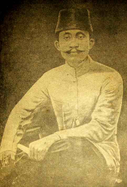 Raden Mas Hadji Oemar Said Tjokroaminoto (August 16, 1882; Ponorogo – December 17, 1934; Yogyakarta), better known in Indonesia as H. O. S. Tjokroaminoto, was an Indonesian nationalist. He was one of the leaders, after the founder Haji Samanhudi, of Syarekat Dagang Islam (Islamic Trade Union), which became Sarekat Islam.